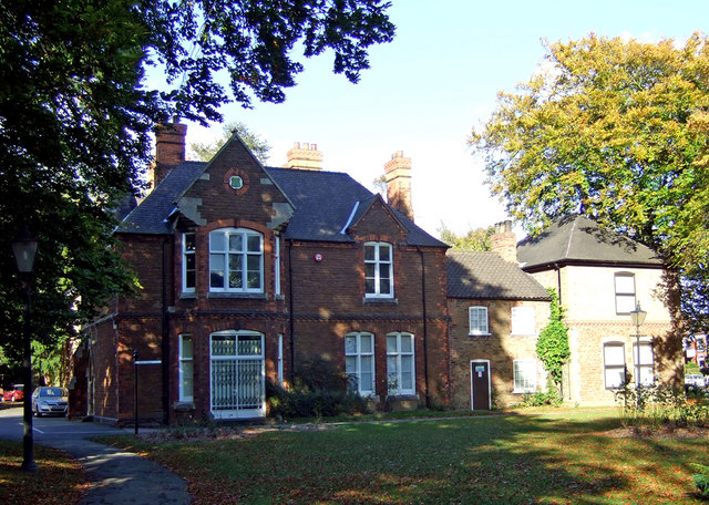 St. Lawrence's, Scunthorpe - The Old Vicarage. The Vicarage now forms part of Scunthorpe Museum.